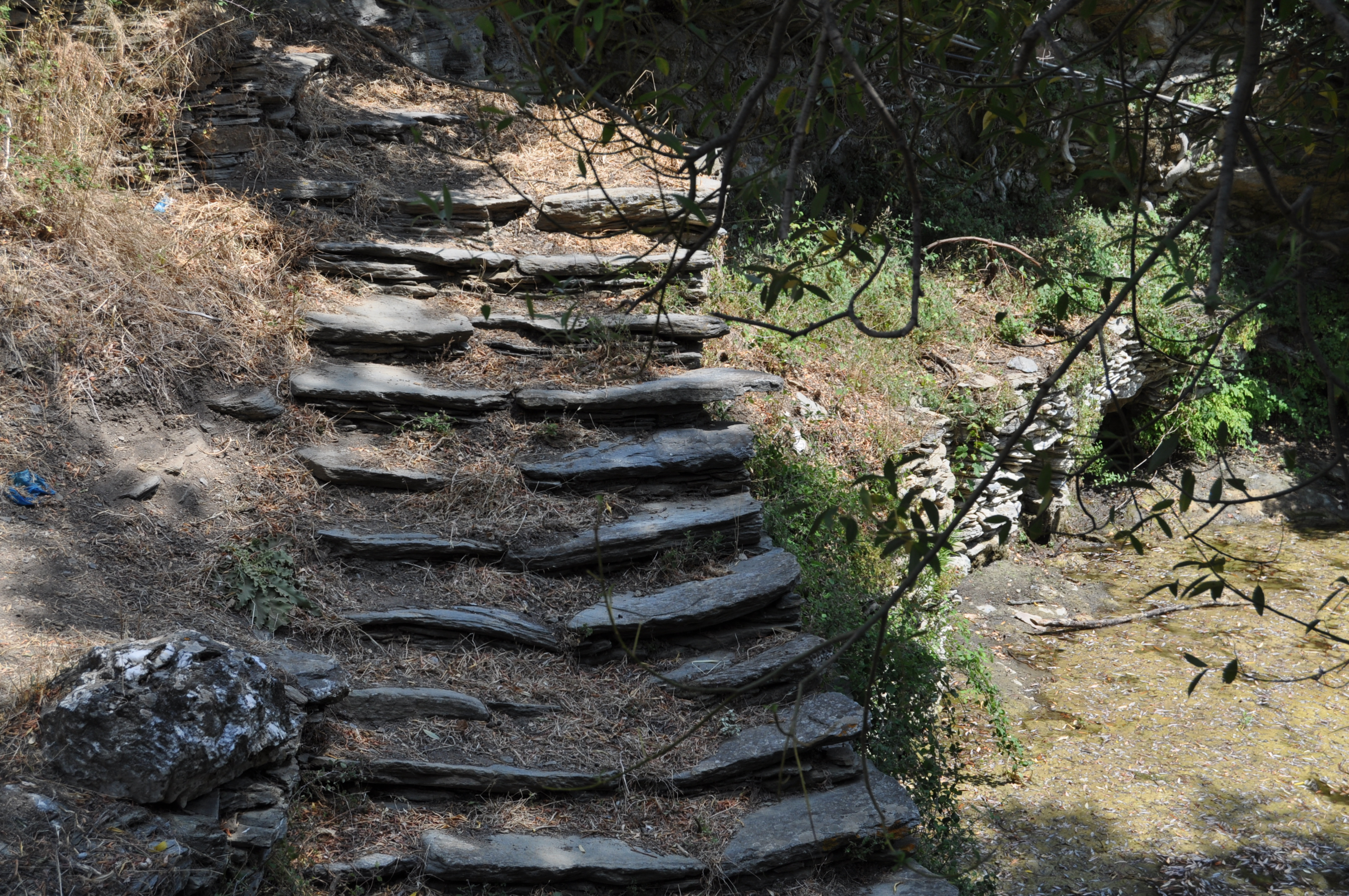 This is a photography of Natura 2000 protected area with ID GR4220001